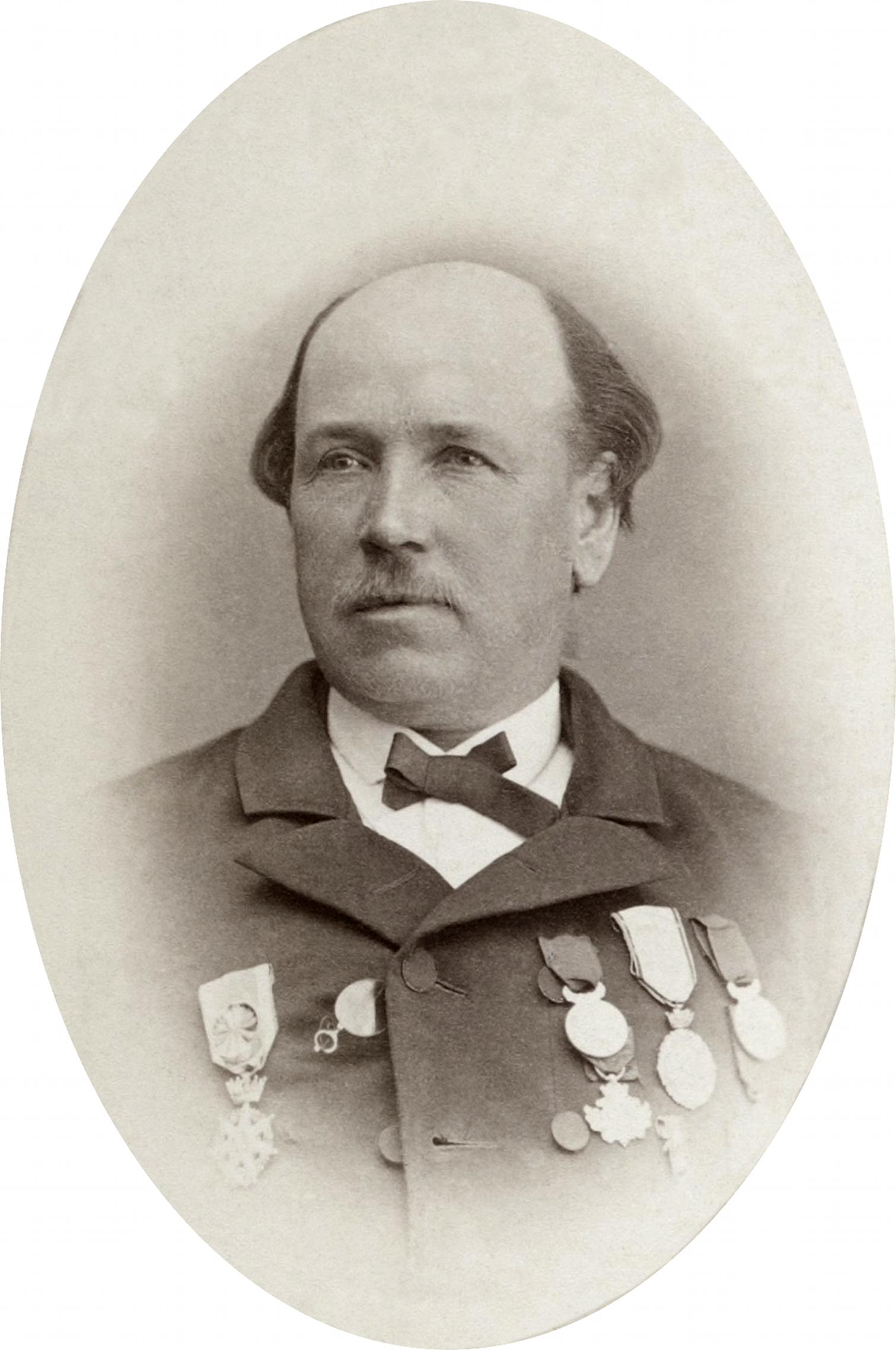 Charles Baillairgé ( 1826 - 1906), canadian architect and engineer.